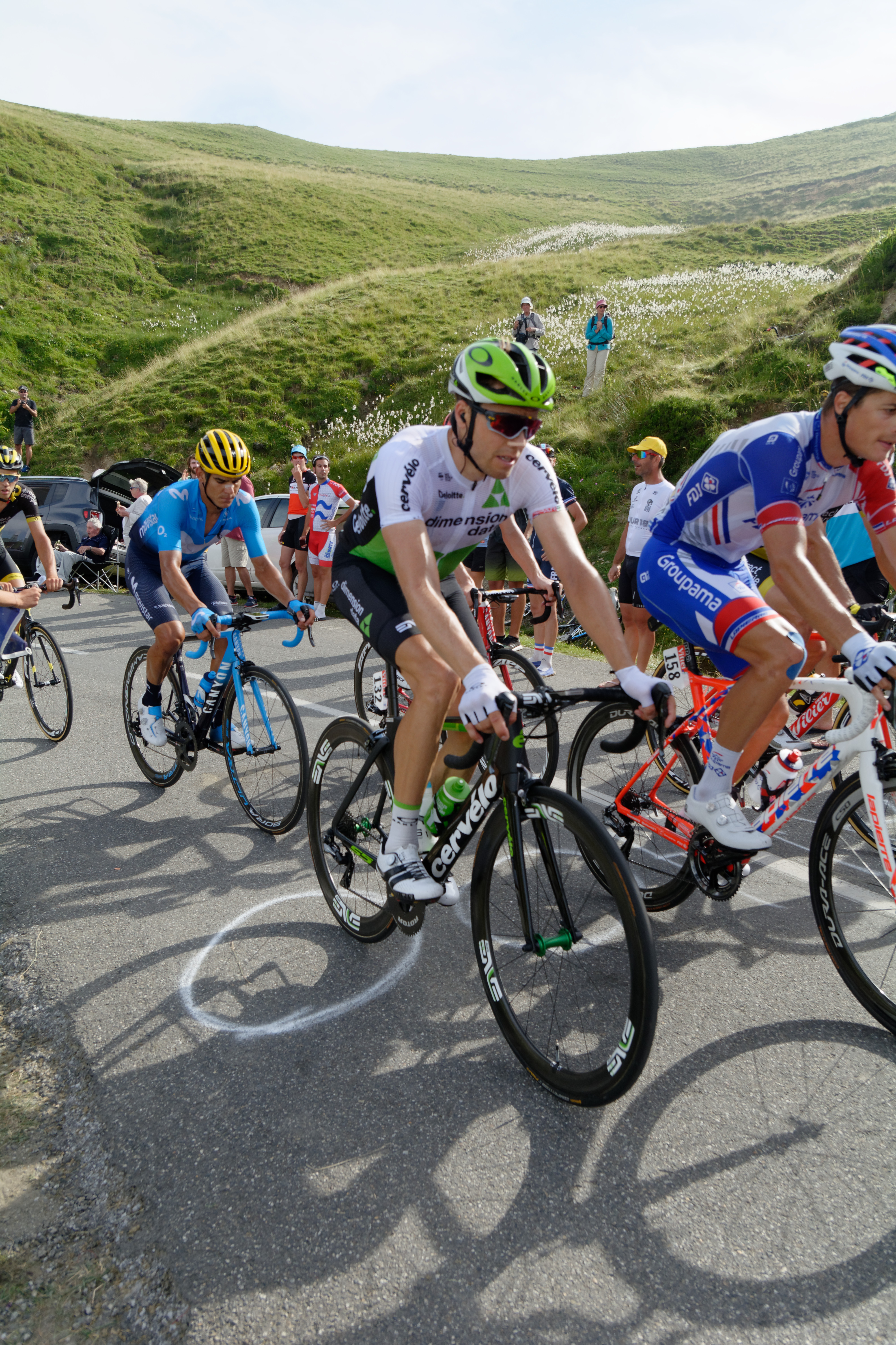 2018 Tour de France